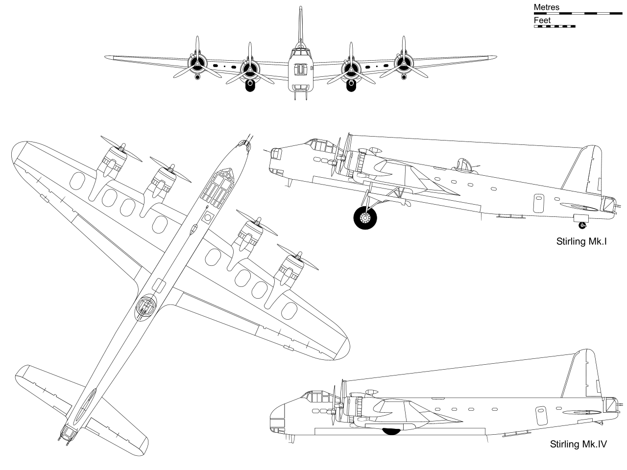 Orthographic projection of Short Stirling Mark I, with profile details of other major variants